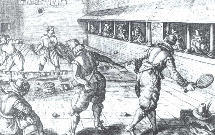 Drawing of a game of jeu de paume.